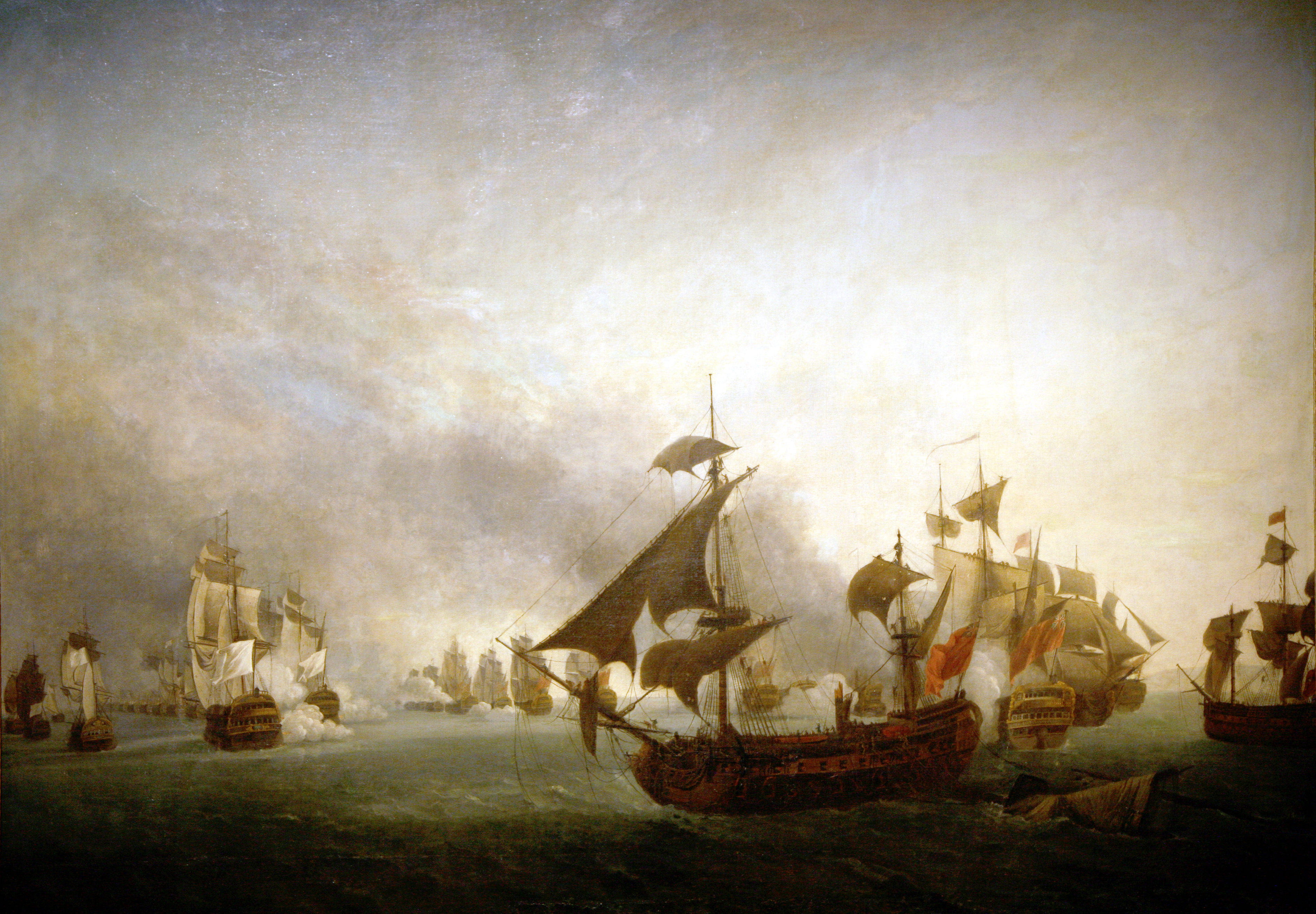 Artist Jean-François Hue (1751-1823)Description Battle of Granada, 2 july 1779Collection Musée national de la Marine Native nameMusée national de la MarineLocationParisCoordinates48° 51′ 43″ N, 2° 17′ 15″ E Established1827Web page control : Q1286709 VIAF: 19144648200974718522 ISNI: 0000 0001 2259 2914 LCCN: n50055356 Museofile: M5026 WorldCat institution QS:P195,Q1286709Accession number 7 OA 1Source/Photographer Med Battle of Granada, 2 july 1779